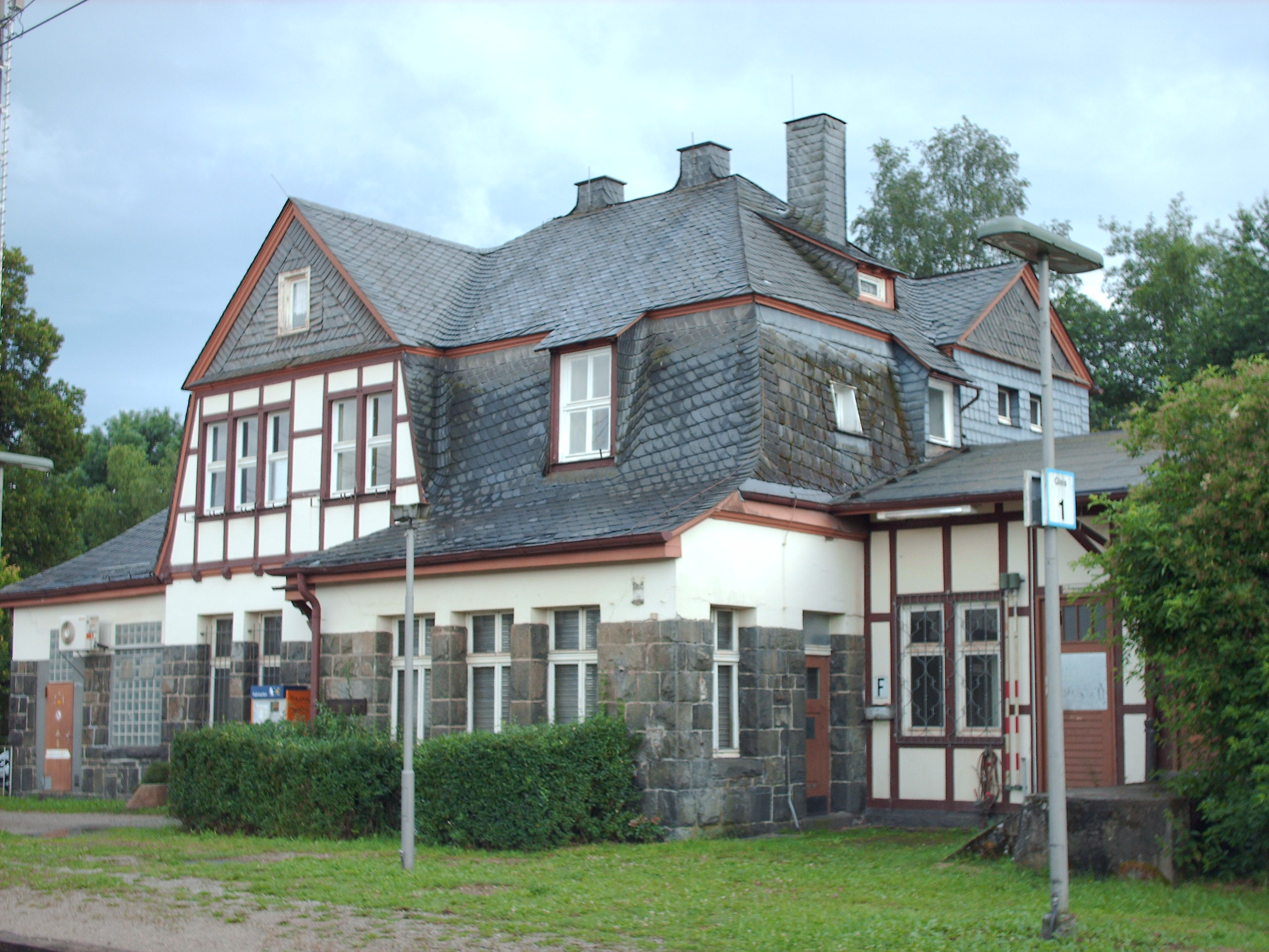 Rudersdorf station, Wilnsdorf, Germany check usage